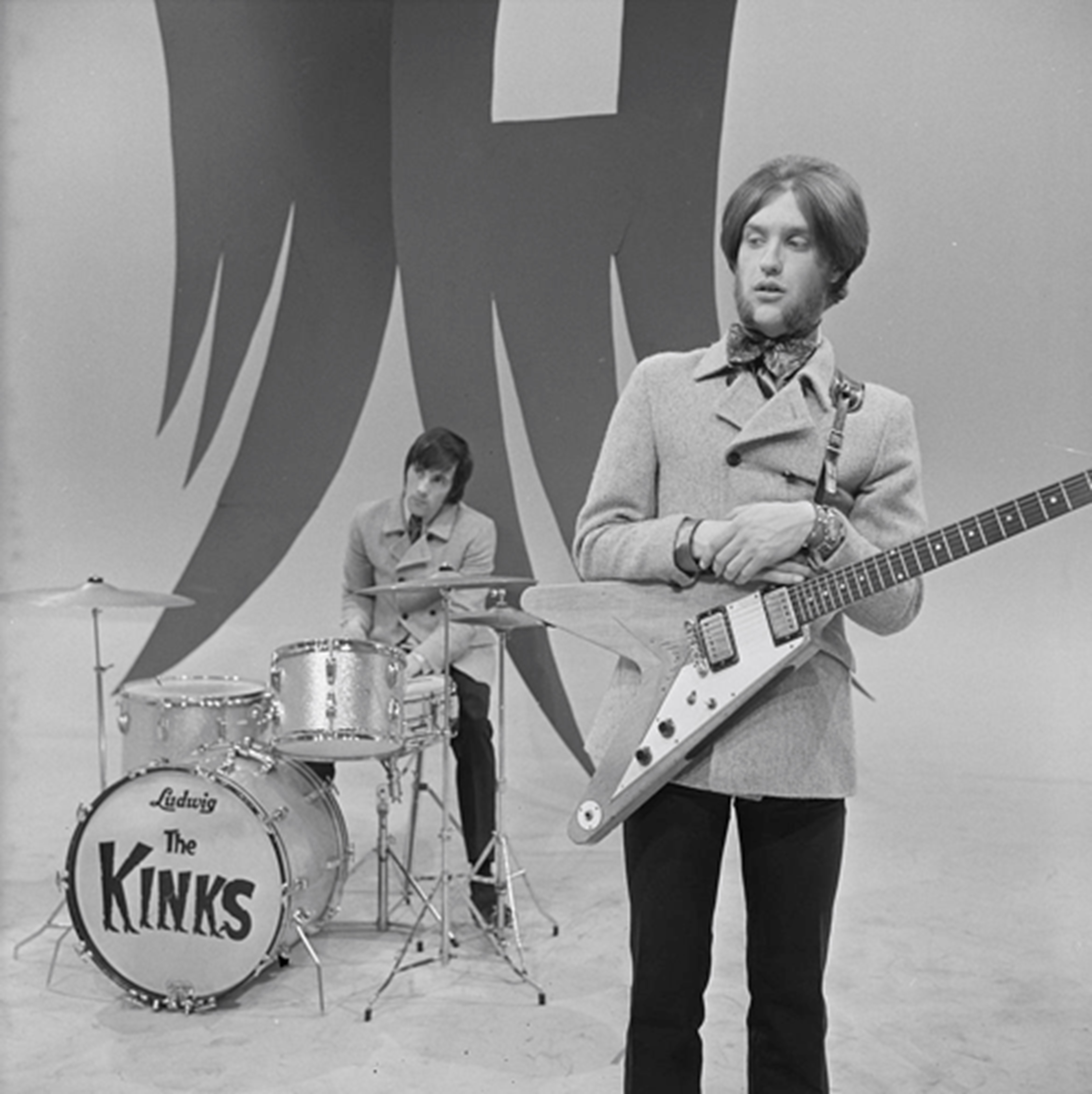 The Kinks performing This is where I belong and Mr. Pleasant. Dutch TV programme Fanclub (29 April 1967)